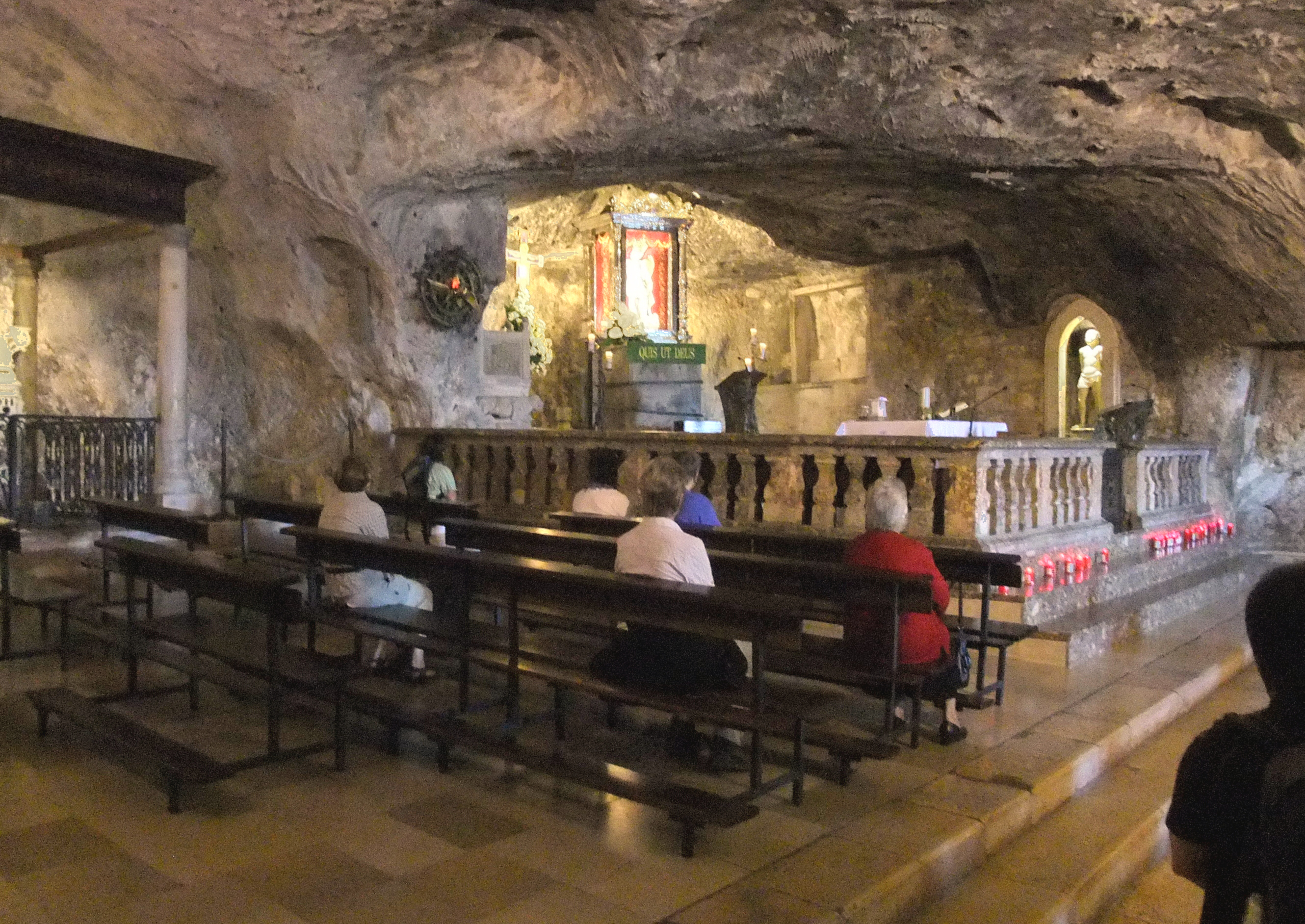 Interior of Basilica di San Michele in Monte Sant'Angelo in Apulia, southern Italy